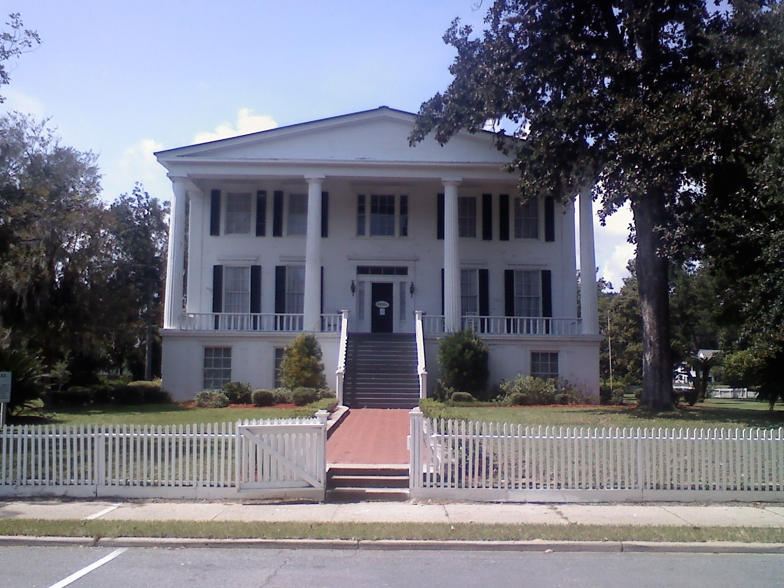 Orange Hall, circa 1828, in Saint Marys, GA was one of the first Greek Revival architectural designs built in America, favored in the Antebellum South. Placed on the National Register of Historic Places in 1973.